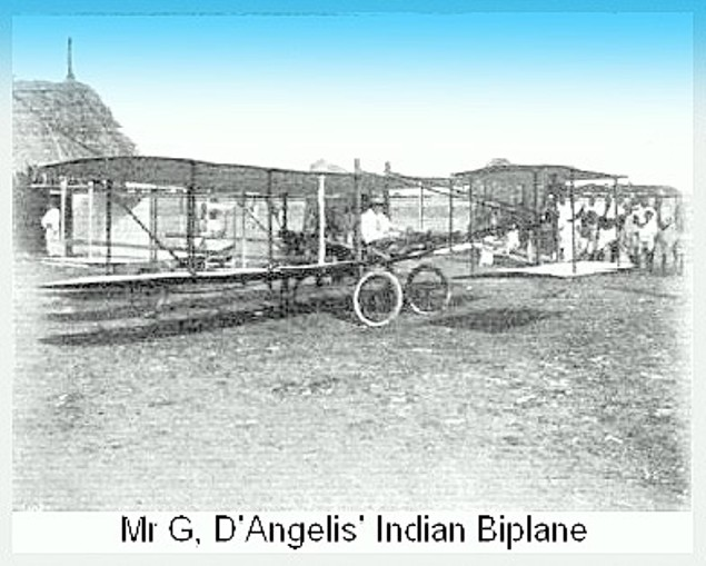 this photo, belongs to D'Angelis Family